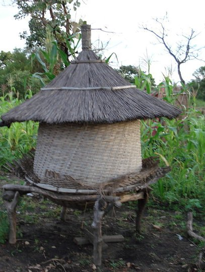 Thatched roof granary — Equatoria region, South Sudan. The Pojulu People traditionally store their foods and other harvests in such shelters, where it it easier to control insects and rats by putting traps on each post.